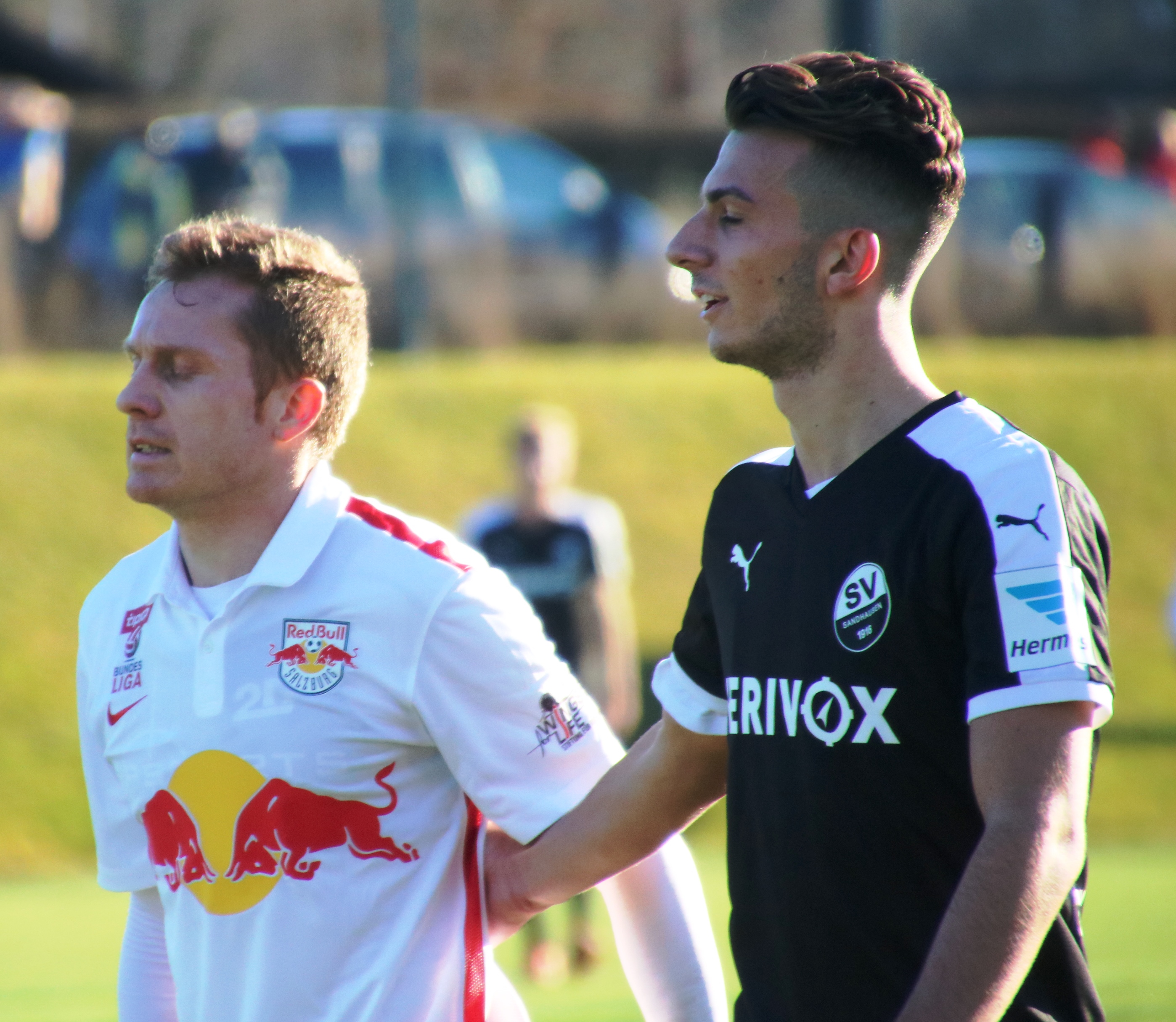 Friendly match 2016